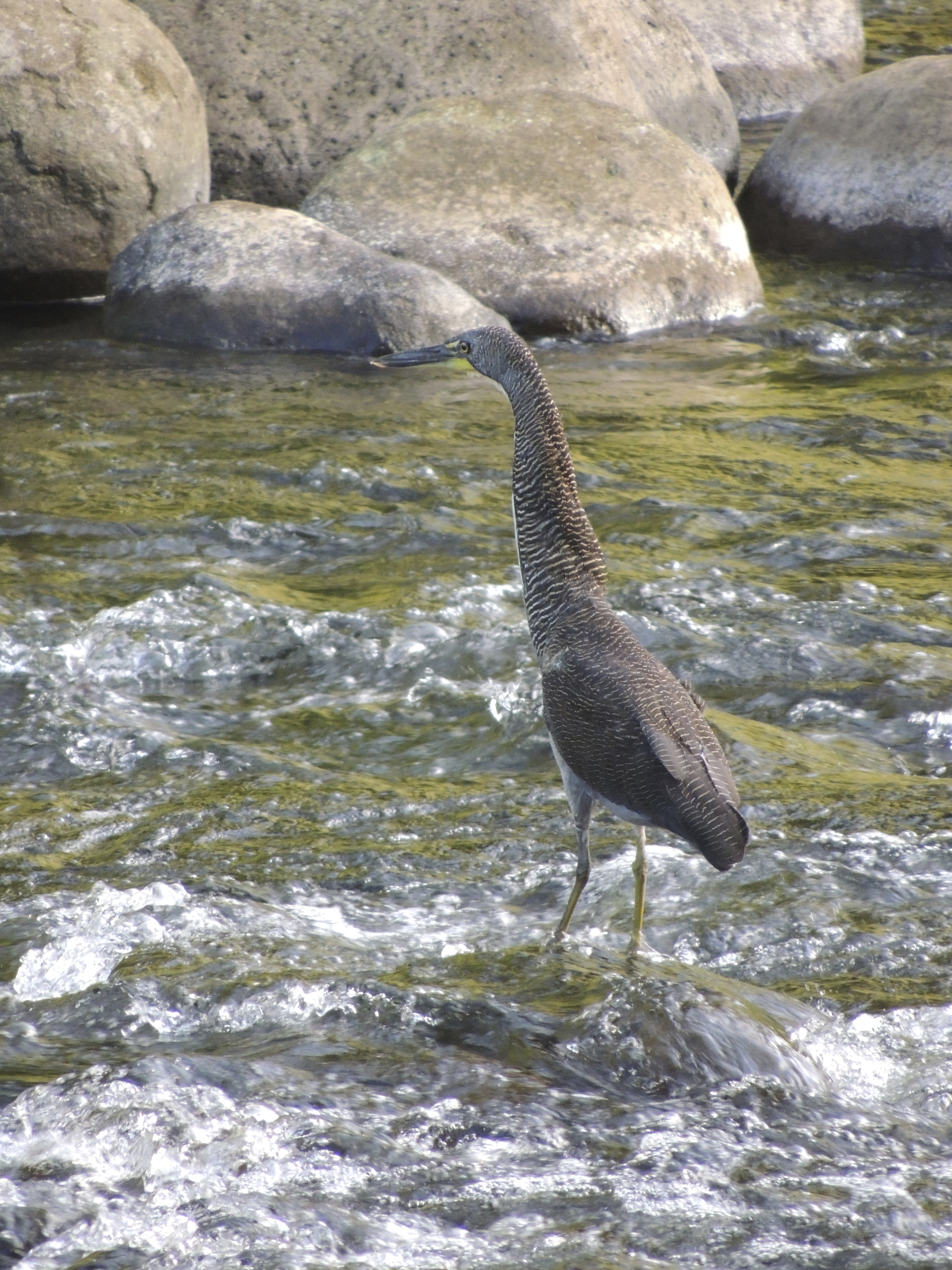 Fasciated Tiger-heron, Tigrisoma fasciatum, hunting in Tuis River, just outside of Tuis, Costa Rica